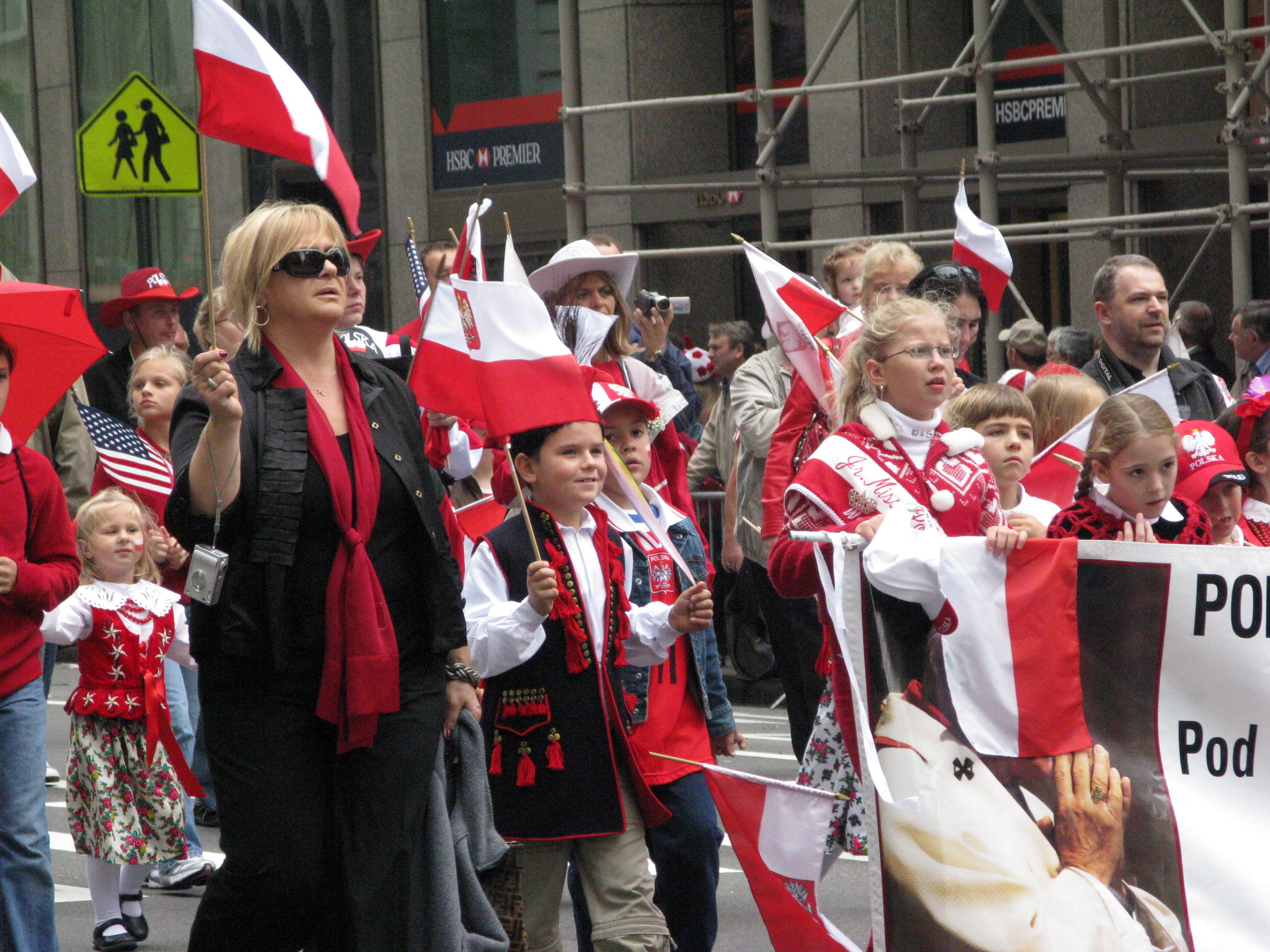 The 2008 Pulaski Day Parade in New York City, for the annual Polish-American celebration.